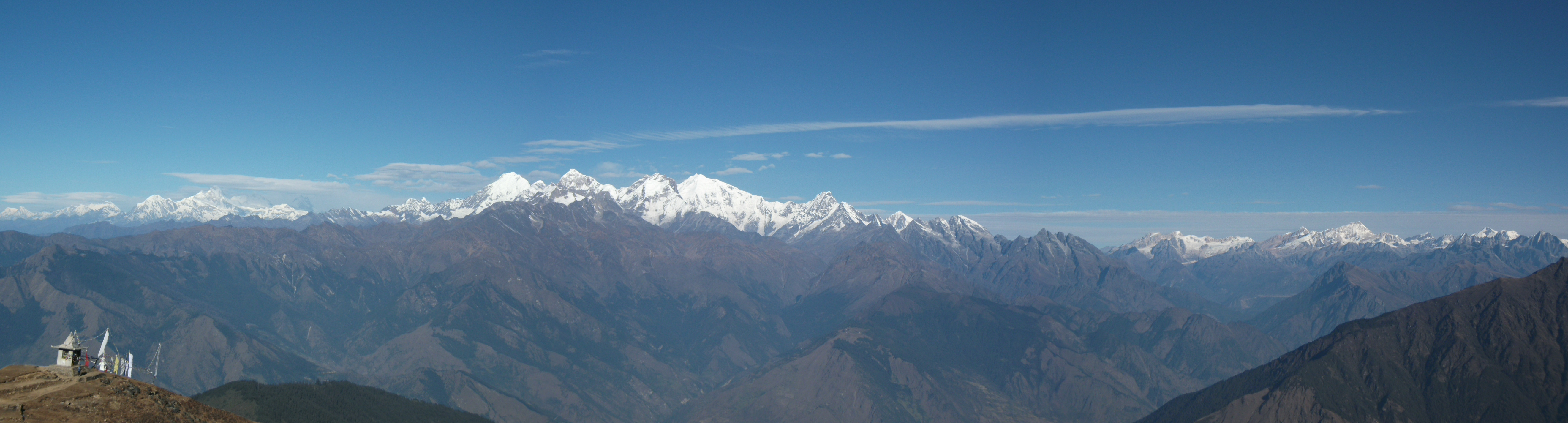 Langtang